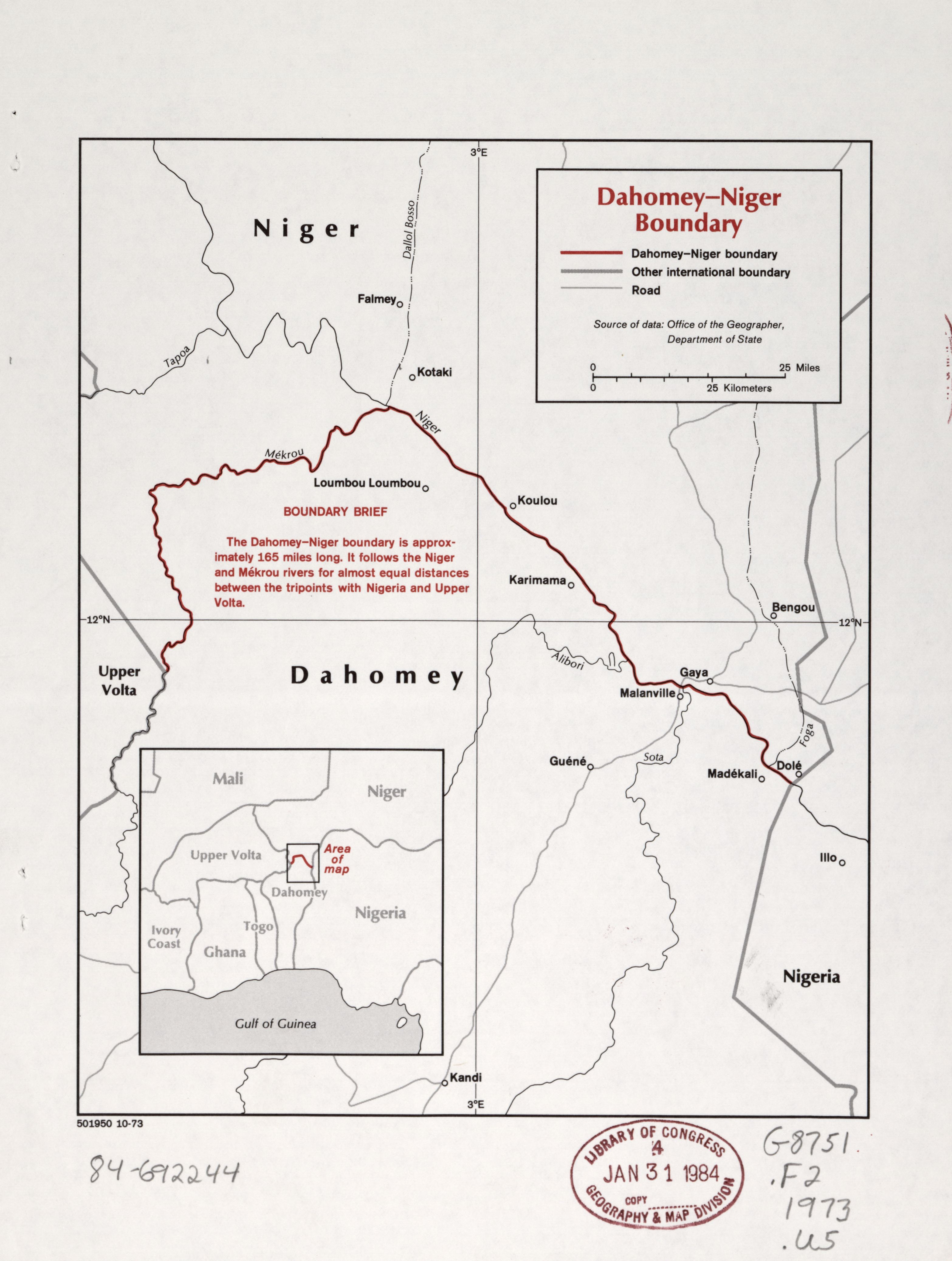 "501950 10-73." "Source of data: Office of the Geographer, Department of State." Includes note and key map. Available also through the Library of Congress Web site as a raster image.